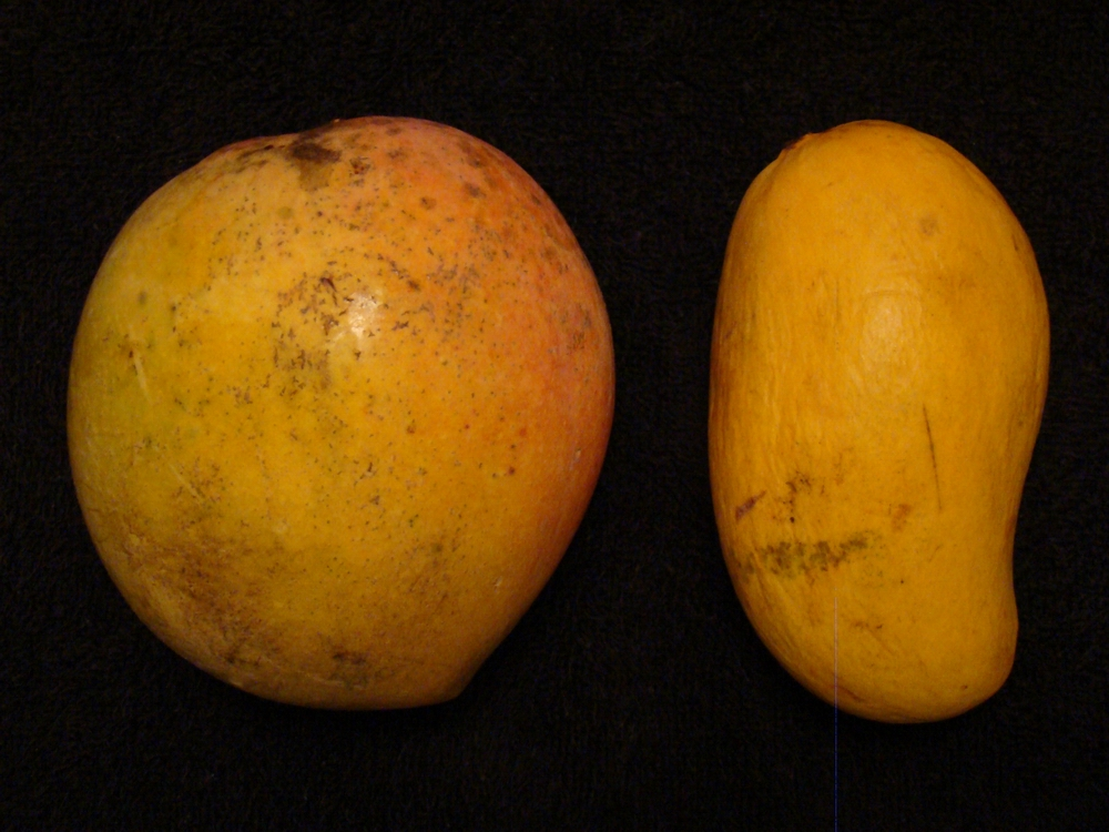 A ripe Bailey's Marvel mango (Mangifera indica / Anacardiaceae) from the Ghosh Grove, Rockledge, Florida is compared with a store-bought Ataulfo mango, grown in Mexico.